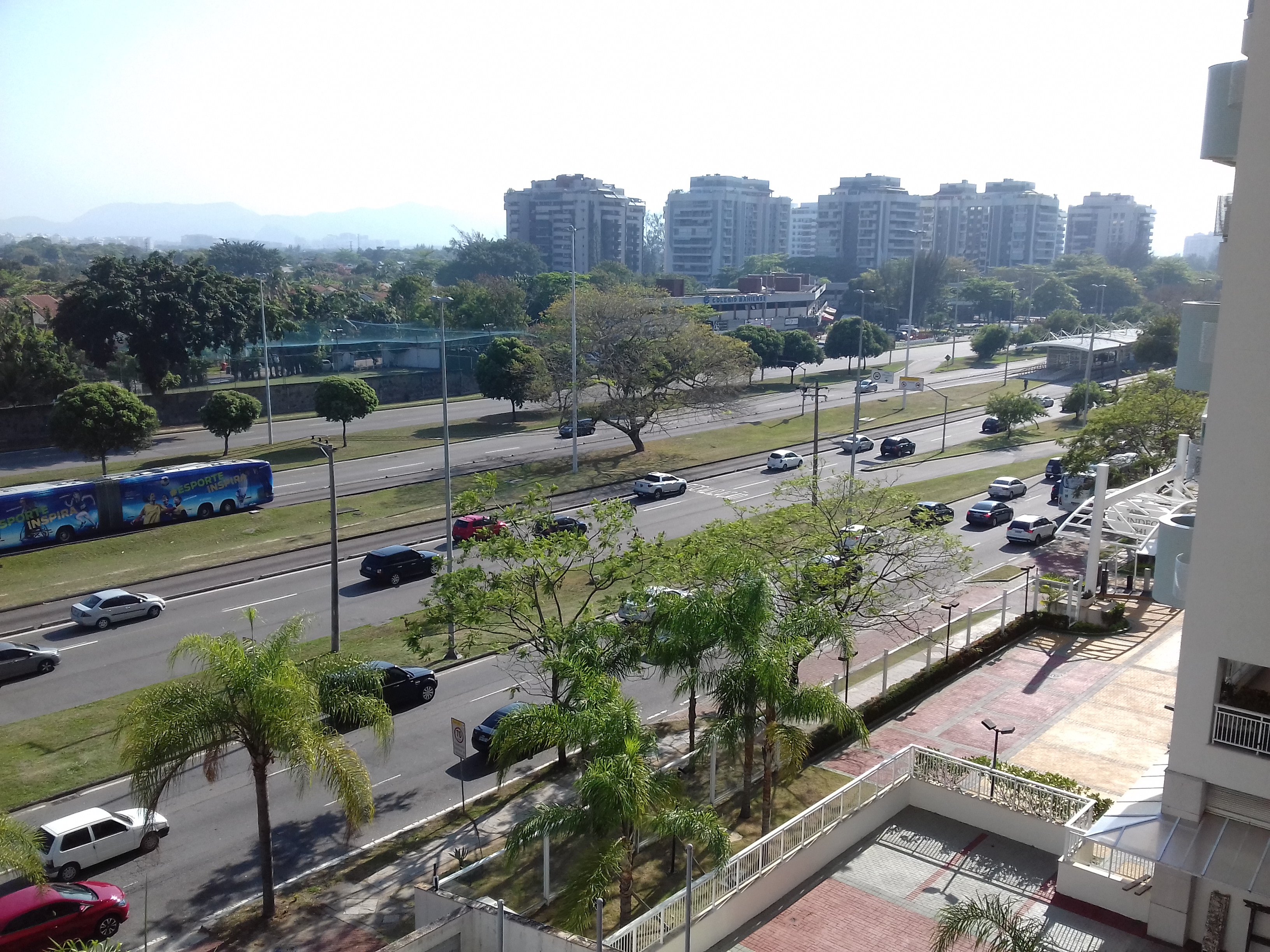 Av. das Americas in Barra da Tijuca